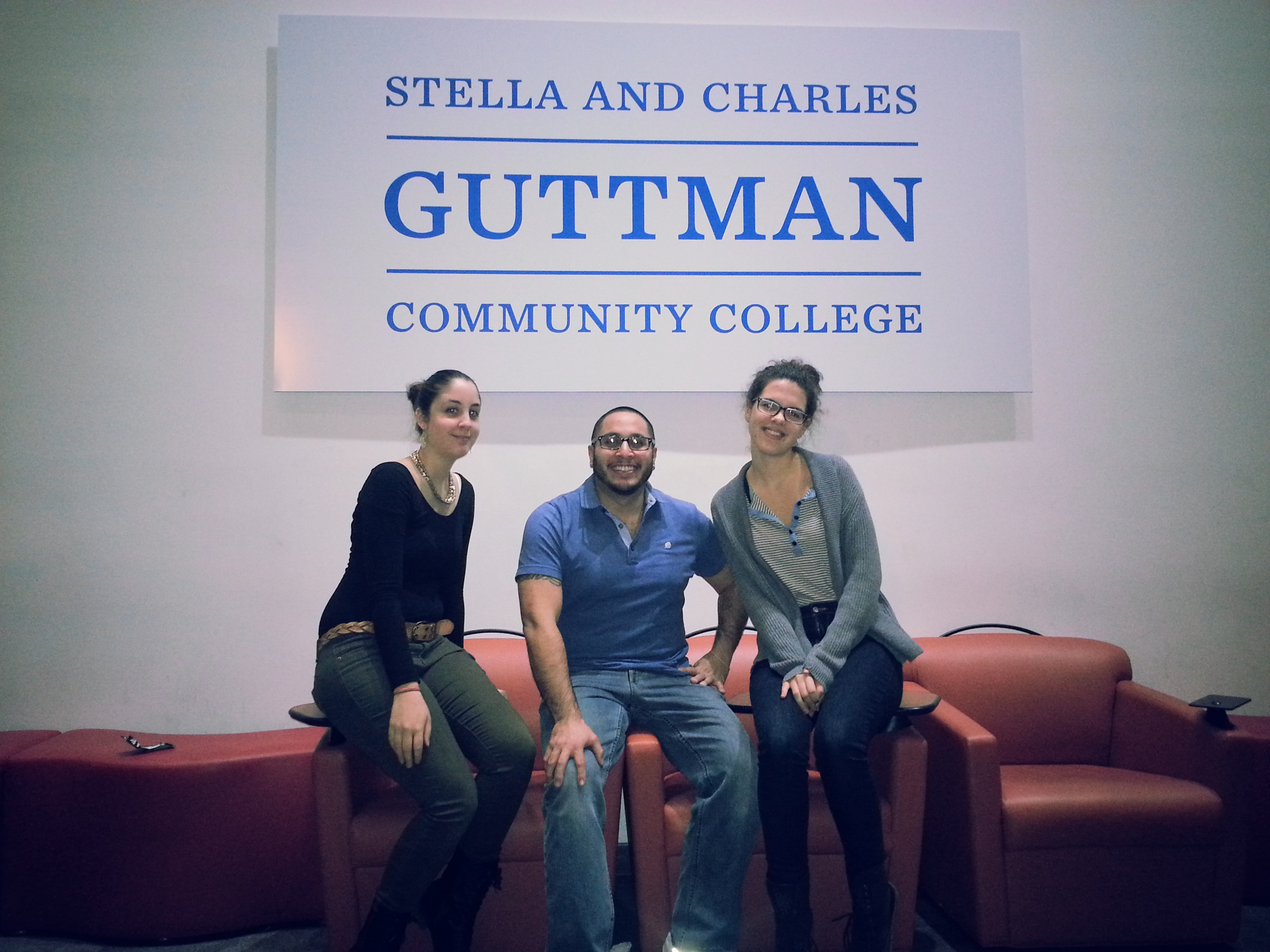 Founding Class: Second Year Students of Guttman Community College